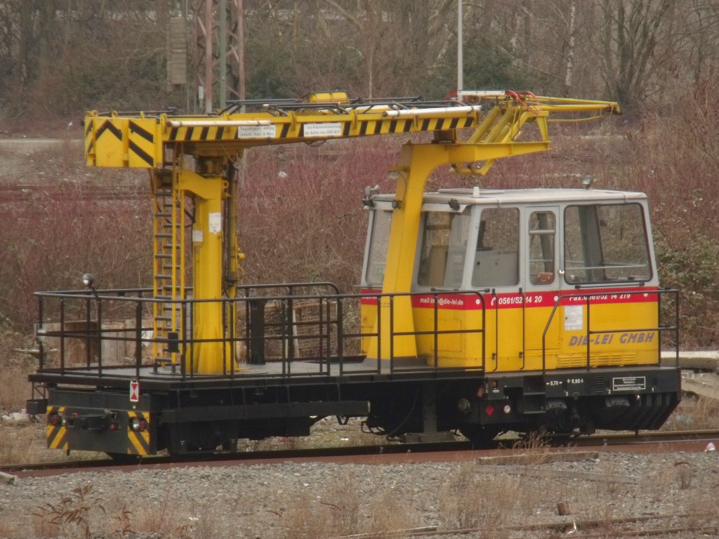 catenary maintenance vehicle MZA of Die-Lei GmbH in Essen main station, Germany